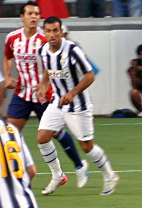 7/28/11 Guadalajara Chivas vs Juventus FC at Carter-Finley Stadium, Raleigh, NC. Bianconeri's forward Fabio Quagliarella.